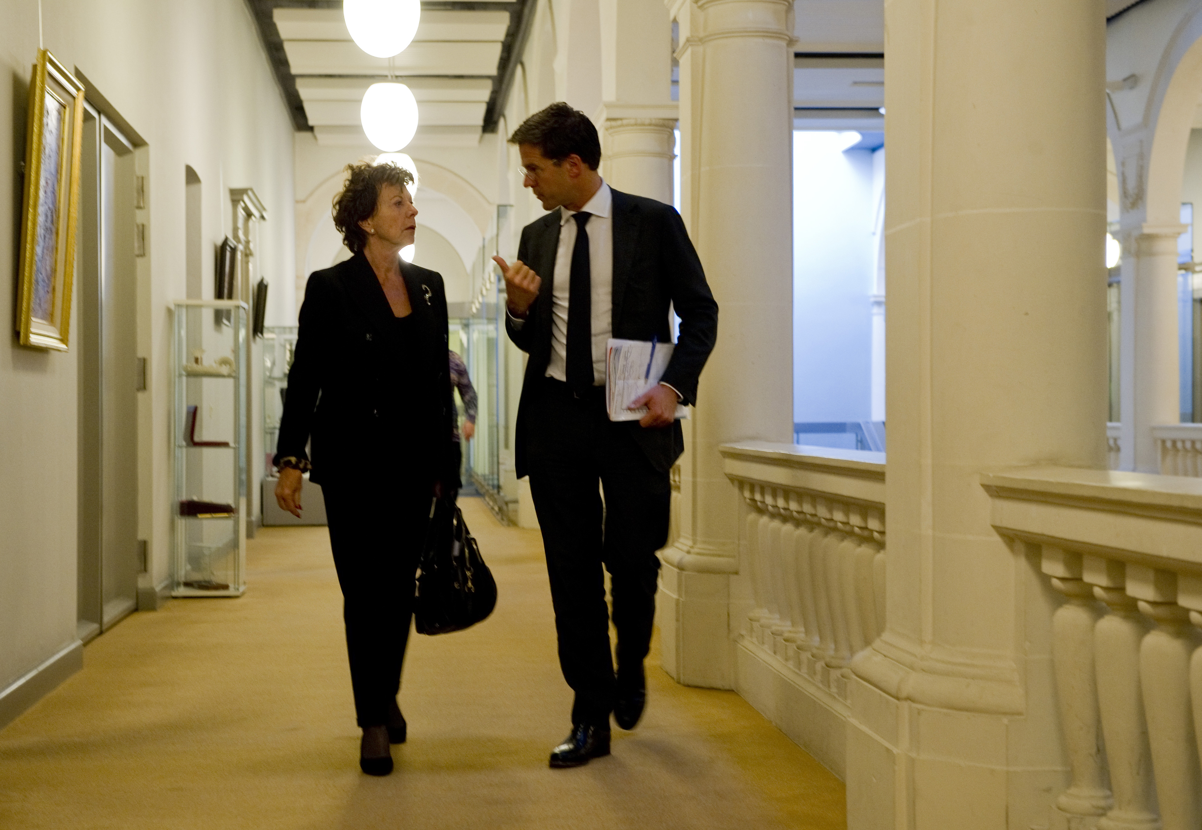 Dutch European Commissioner for Digital Agenda Neelie Kroes meets Prime Minister Mark Rutte and joins him at the Ministerraad in the Treveszaal.